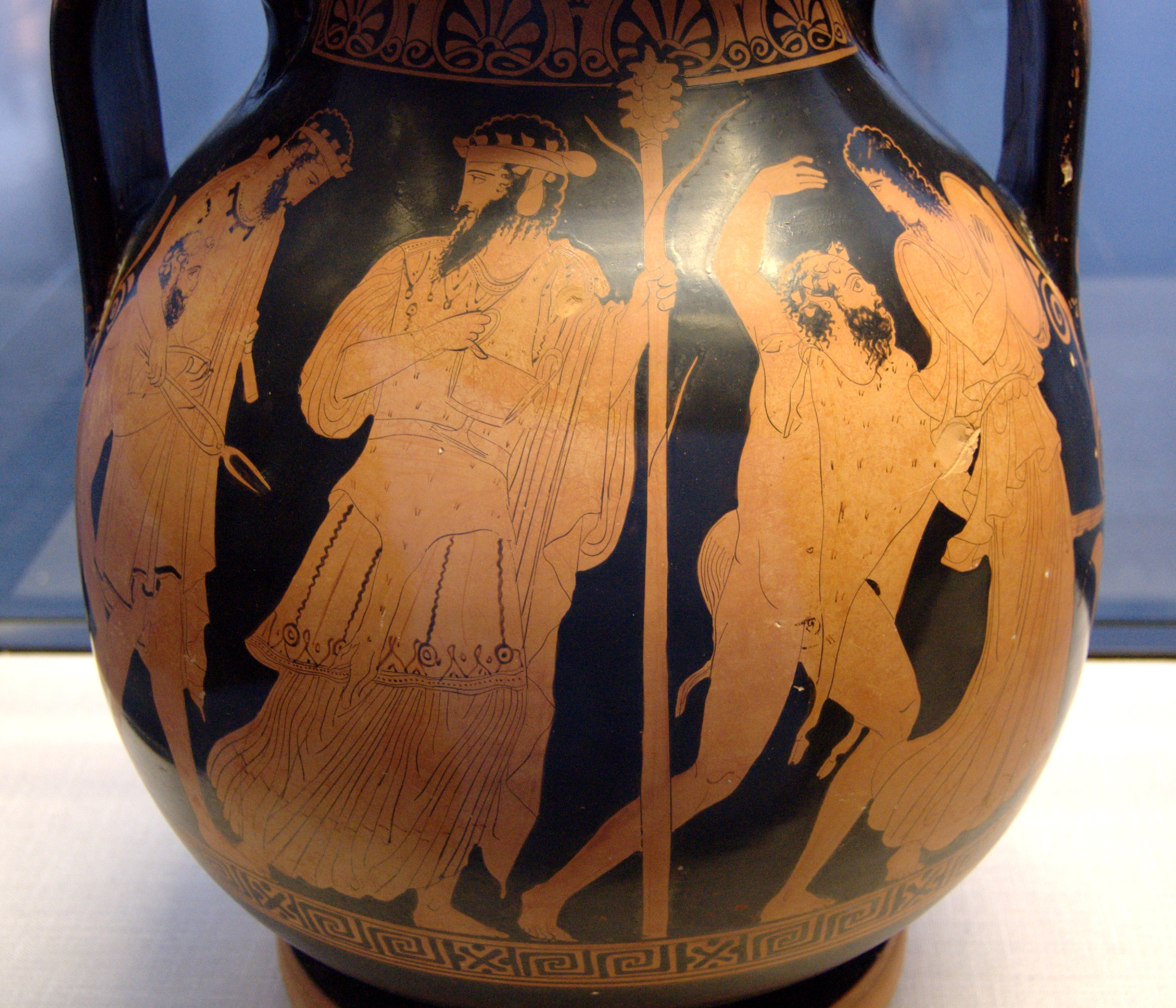 Return of Hephaestus on Olymp, with Dionysos and his thiasos. Side A of an Attic red-figure pelike, 440–430 BC.